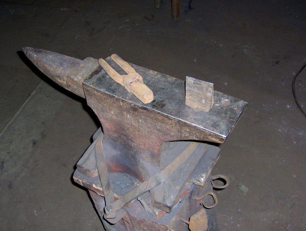 London pattern anvil with hardy in place and a bending fork lying on the anvil face showing its square shank that fits the hardy hole.